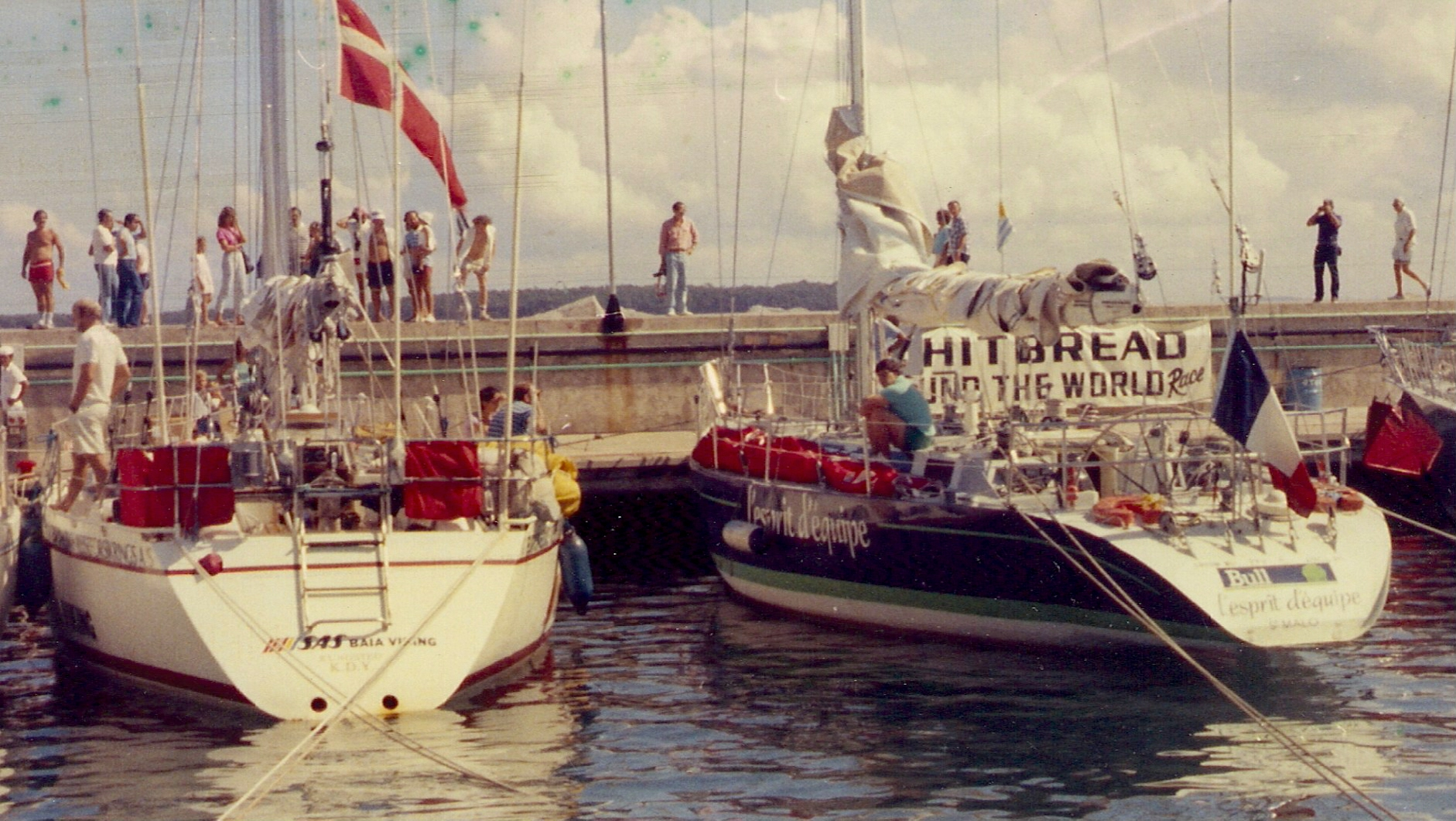 Sailboats L'Esprit d'équipe and SAS Baia Viking during the Whitbread 1985-1986.